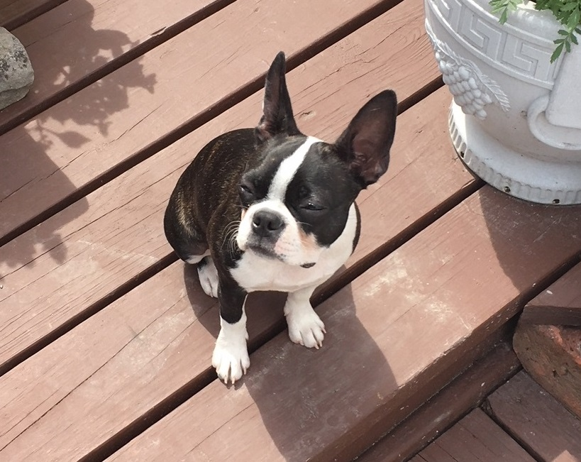 Female Boston terrier at 6 month old